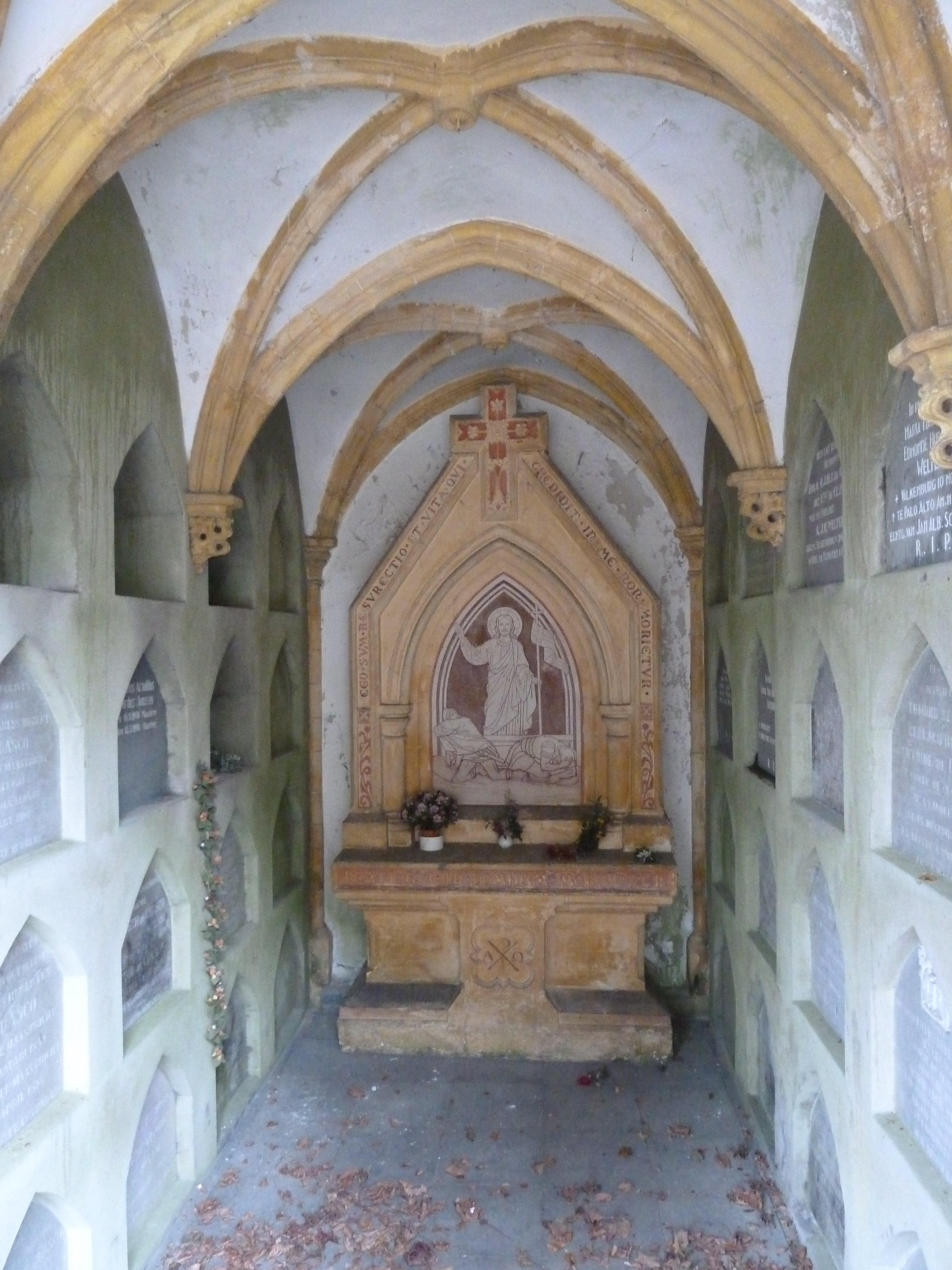 Familiegraf De Guasco, Valkenburg, Limburg, the Netherlands